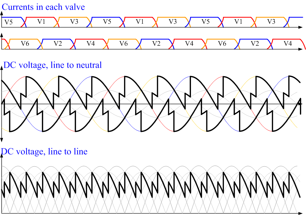 Voltage and current waveforms for a three-phase controlled Graetz bridge rectifier operating with firing delay angle of 40 degrees and overlap angle of 20 degrees.